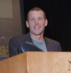 Cyclist Lance Armstrong visiting the NIH (National Institutes of Health).